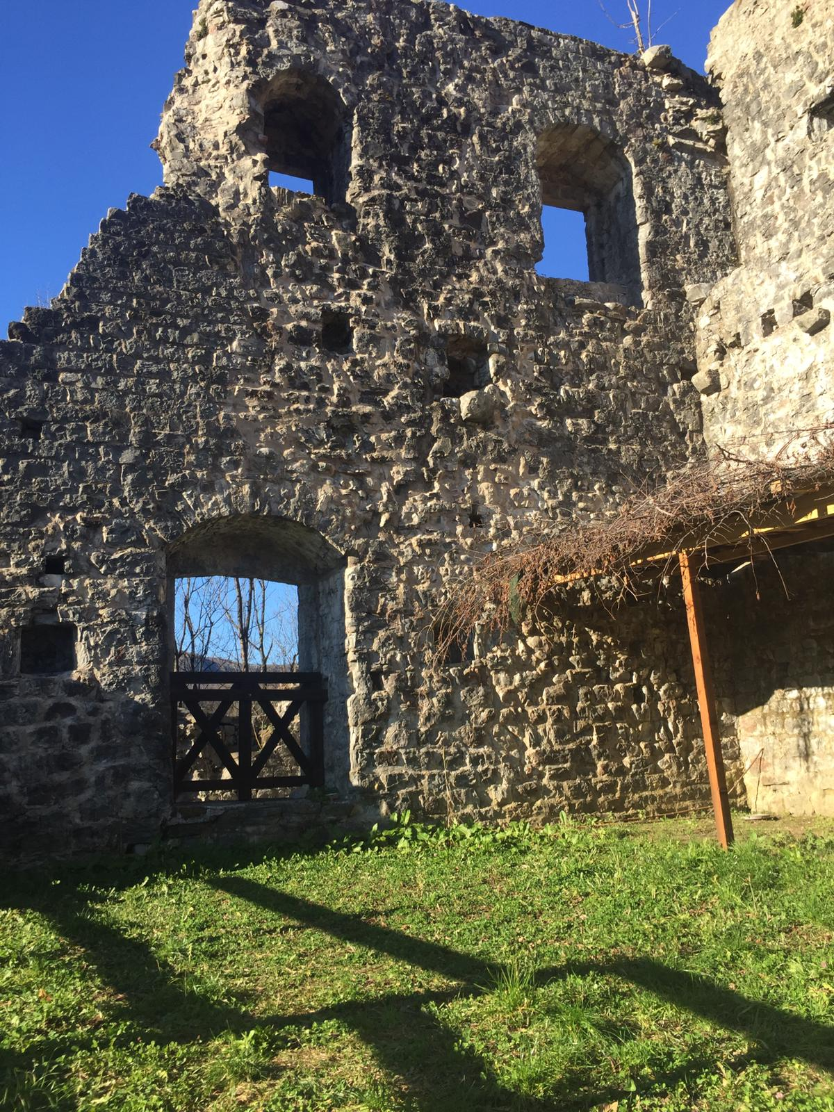 Cergneu